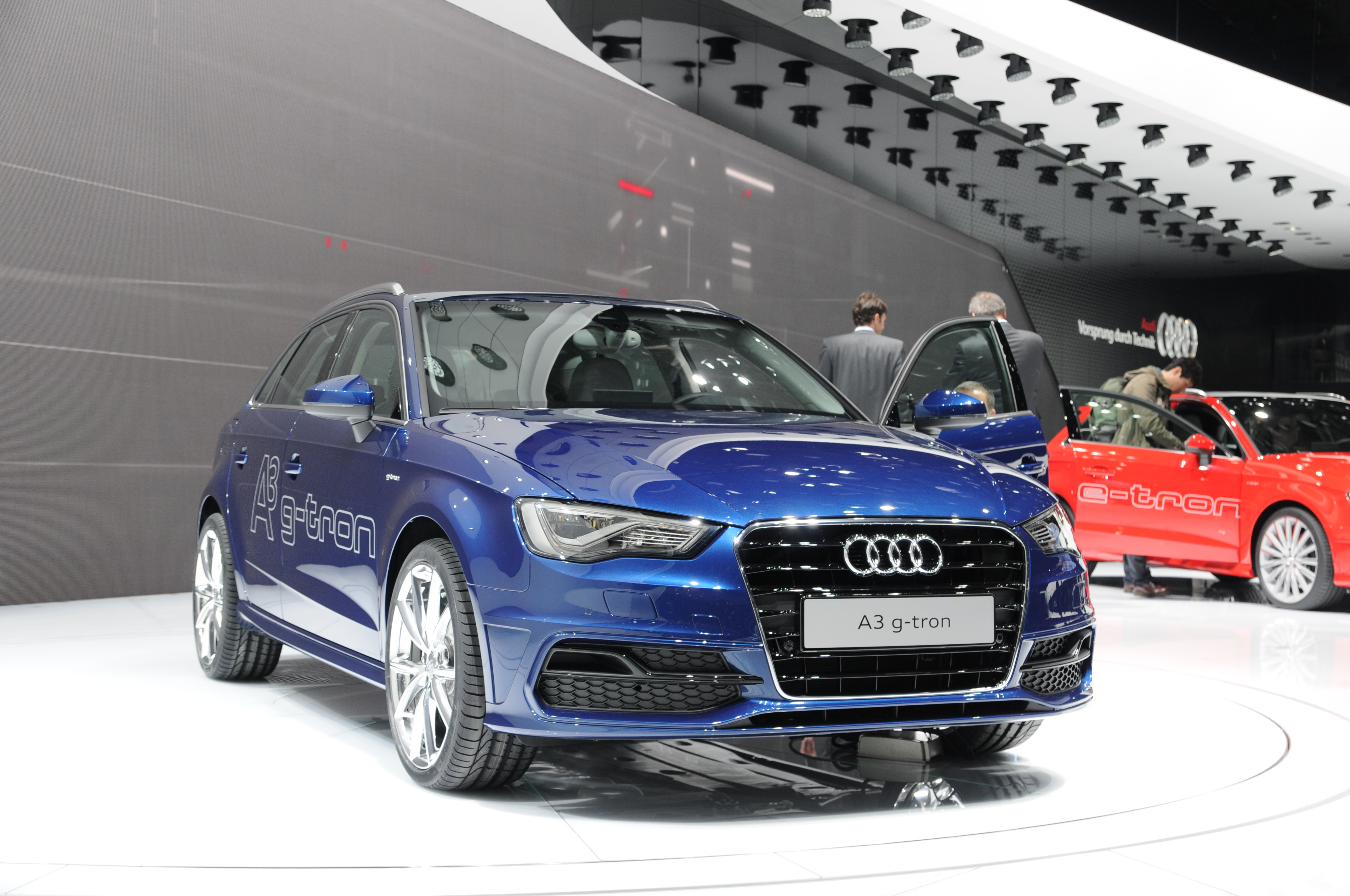 Geneva Motor Show 2013 (photos taken on the first press day)